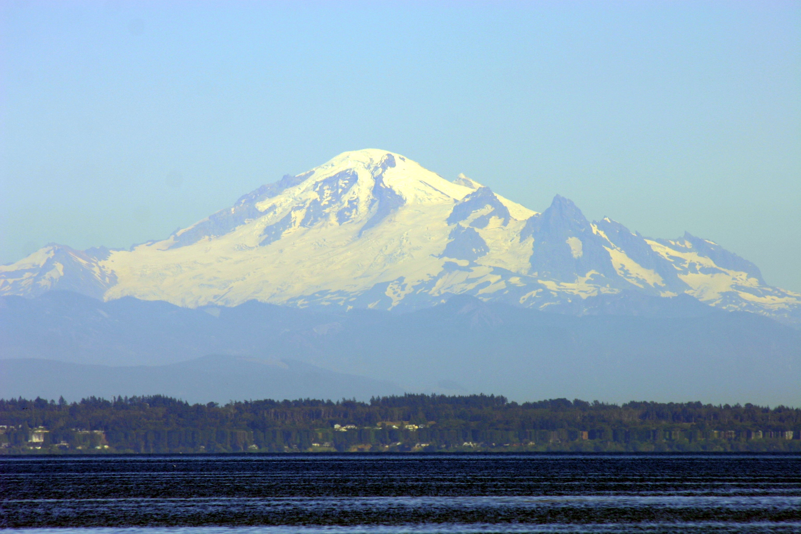 Mount Baker as seen across Boundary Bay from Maple Beach, Point Roberts.